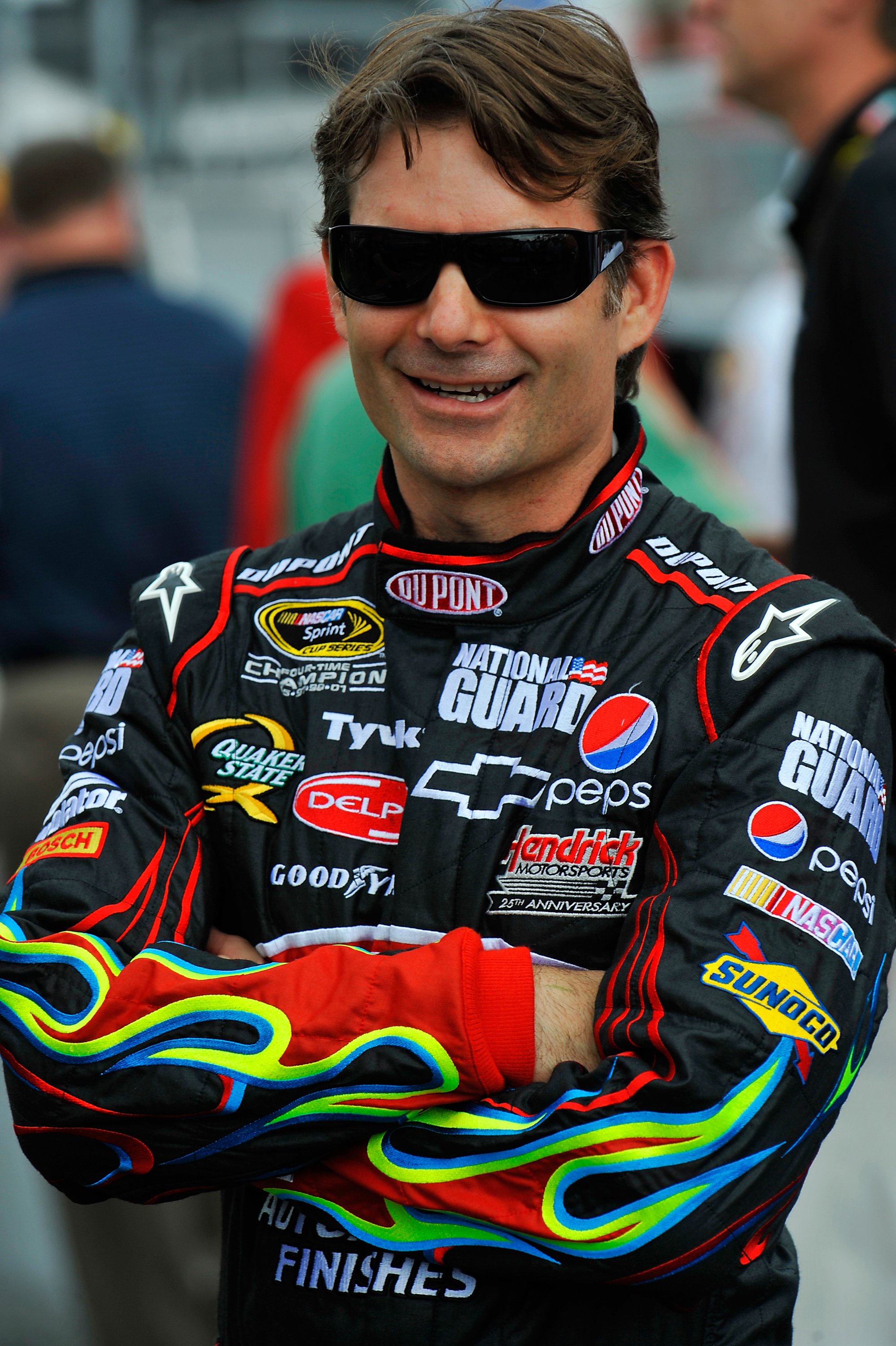 Jeff Gordon, driver of the No. 24 DuPont Chevrolet, won the first Gatorade Duel on Thursday and will line up third for Sunday's Daytona 500. (Courtesy Hendrick Motorsports)